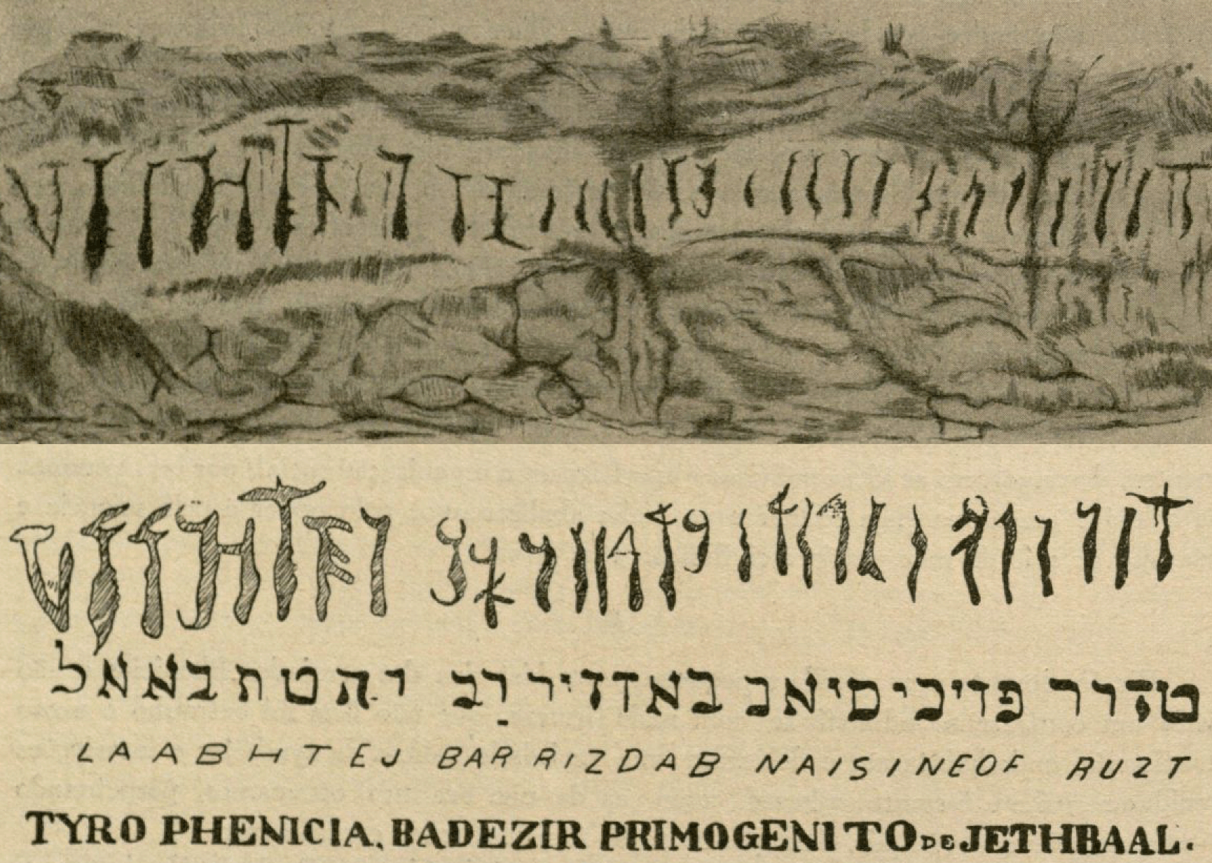 Interpretation of the marks on Pedra da Gávea in a book by Bernardo de Azevedo da Silva Ramos (1858 - 1931); the image is made from two smaller images. The first (top) appears on page 445 of his book Tradiçoes da America Pré-Histórica, Especialmente do Brasil Vol. I, and the second (bottom) appears on page 458 of the same book.